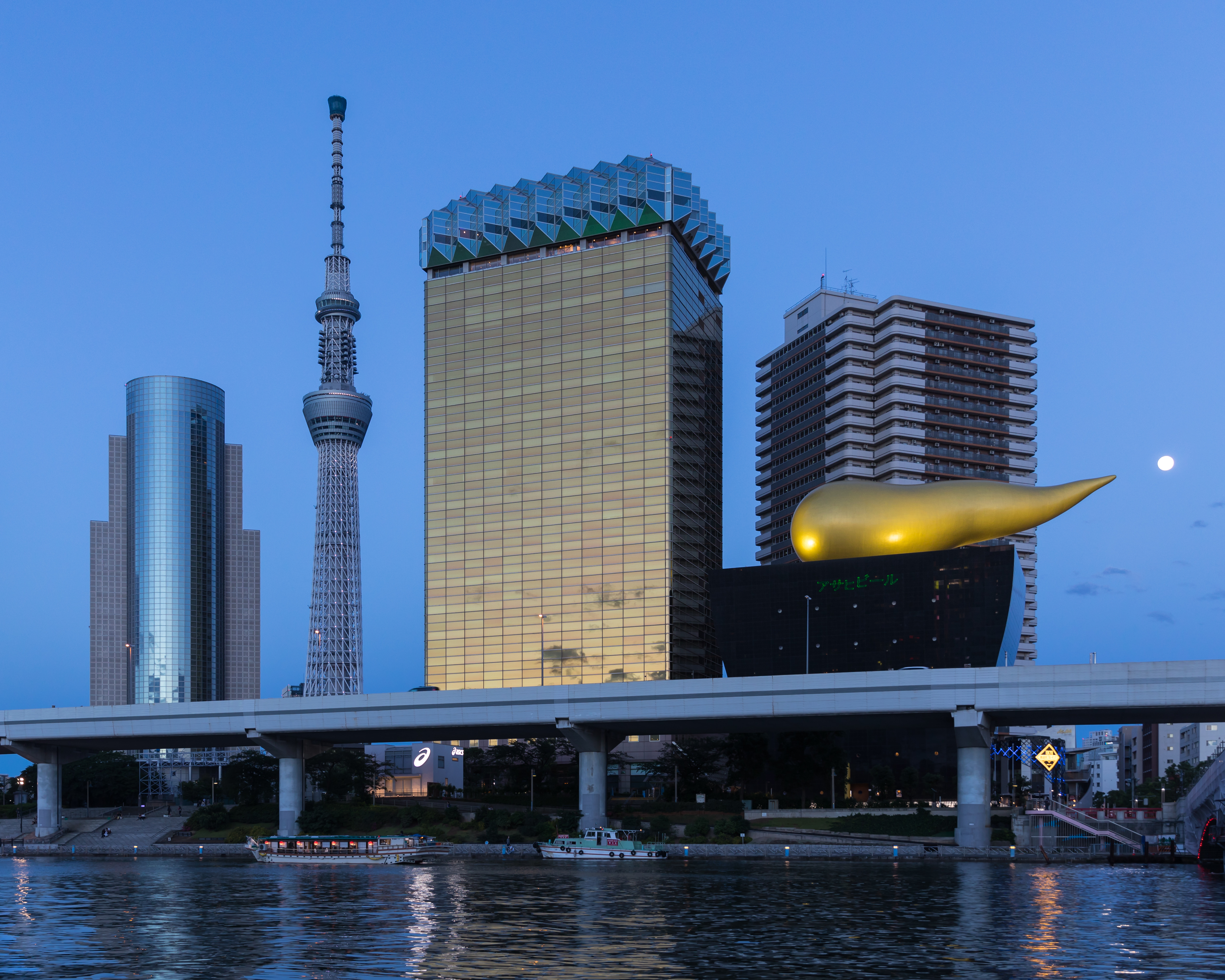 Asahi Breweries headquarters building with the Asahi Flame (also called Super Dry Hall, or Flamme d'Or) designed by Philippe Starck on the Asahi Beer Hall, and Tokyo Skytree, as seen from the wharf at the Sumida River near Azuma Bridge, at blue hour with full moon, Sumida-ku, Tokyo, Japan.